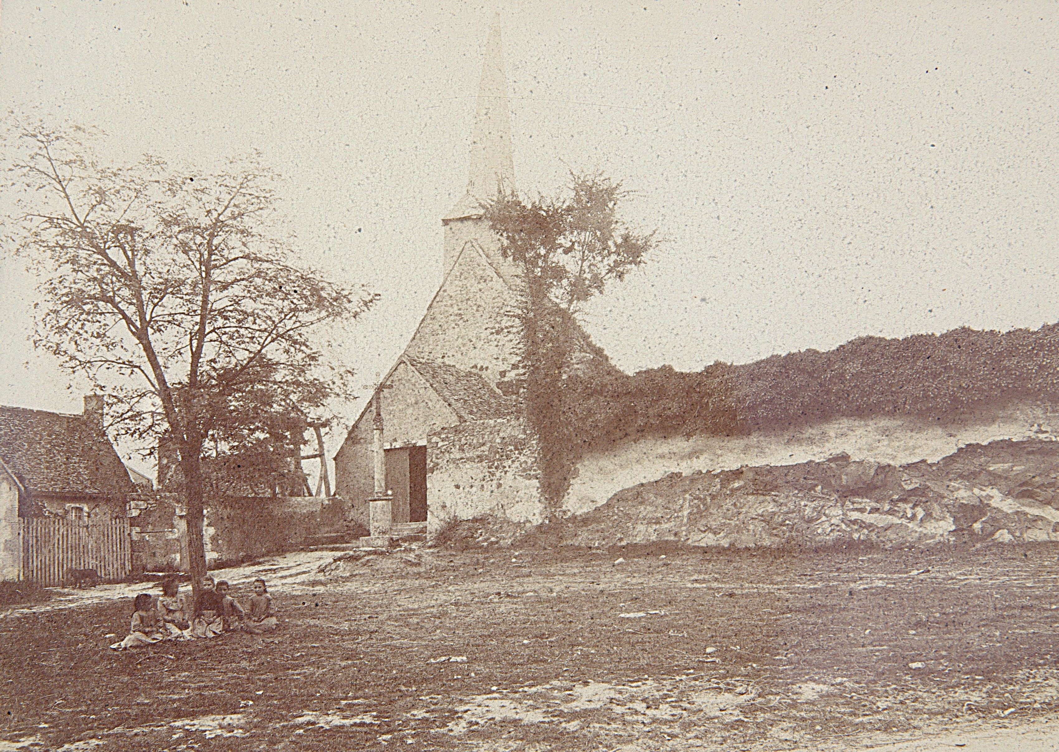 Old church of Migné, before 1900.(It's a old picture)